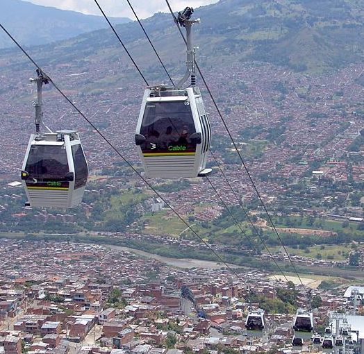 Metrocable - public aerialway in Medellin